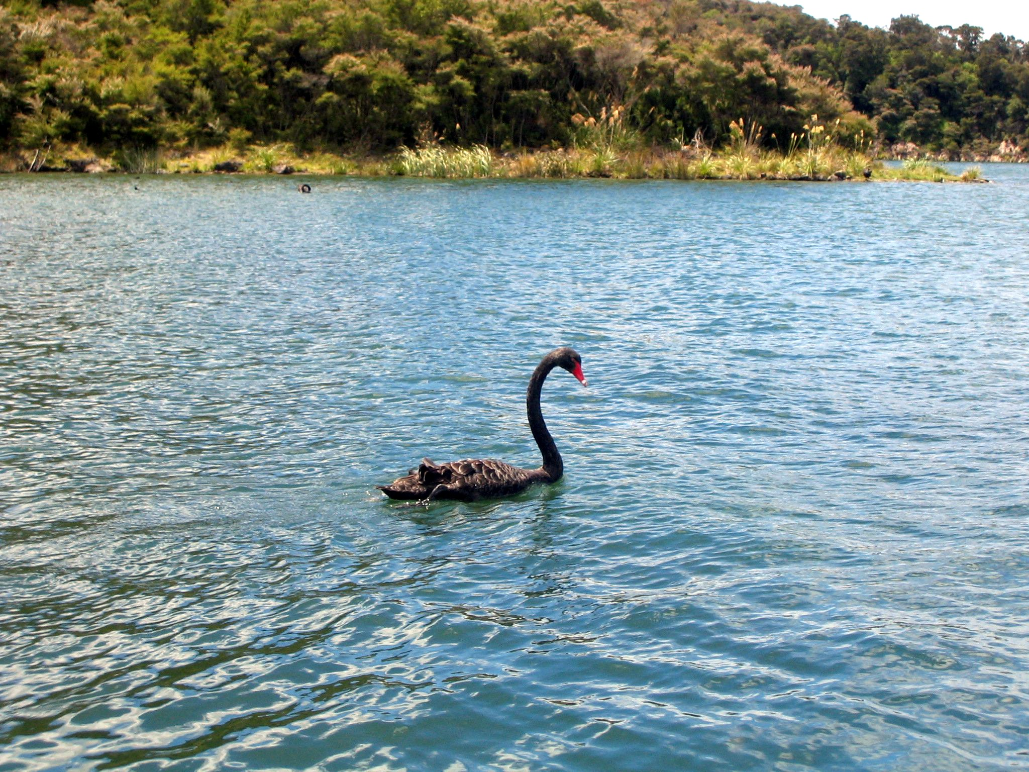 Black swan (Cygnus atratus) on Lake Rotomahana. Near Rotorua, North Island, New Zealand.